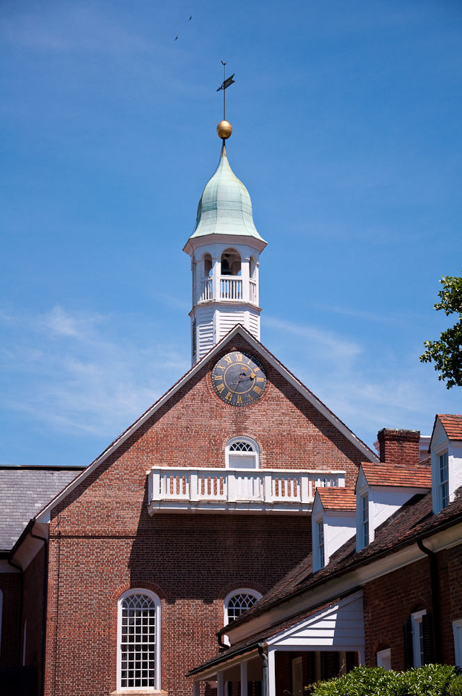 Home Moravian Church